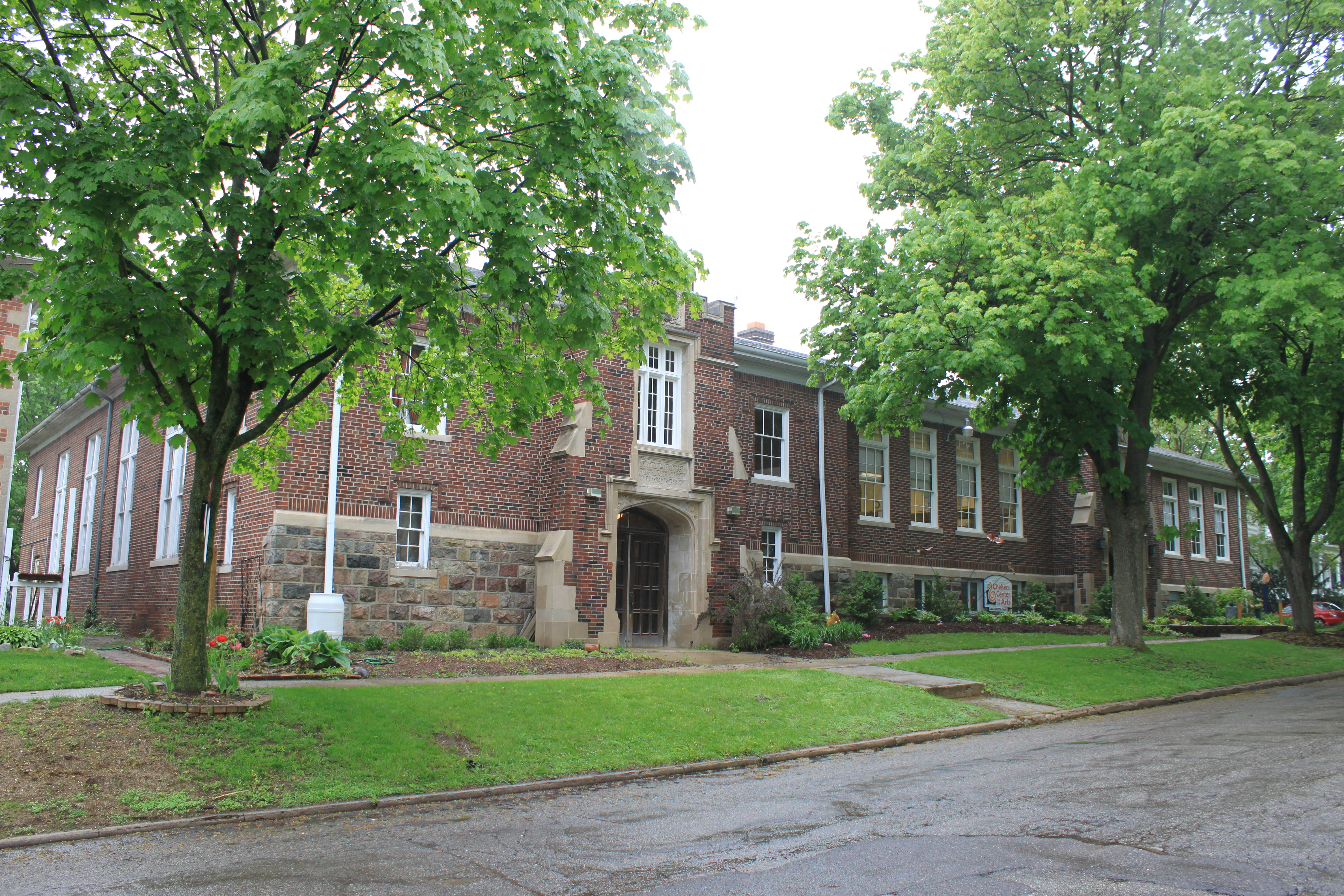 Saint Mary's School — 400 Congdon Street, Chelsea, Michigan. The 1925 building is in the National Register of Historic Places. It currently houses the Chelsea Center for the Arts.